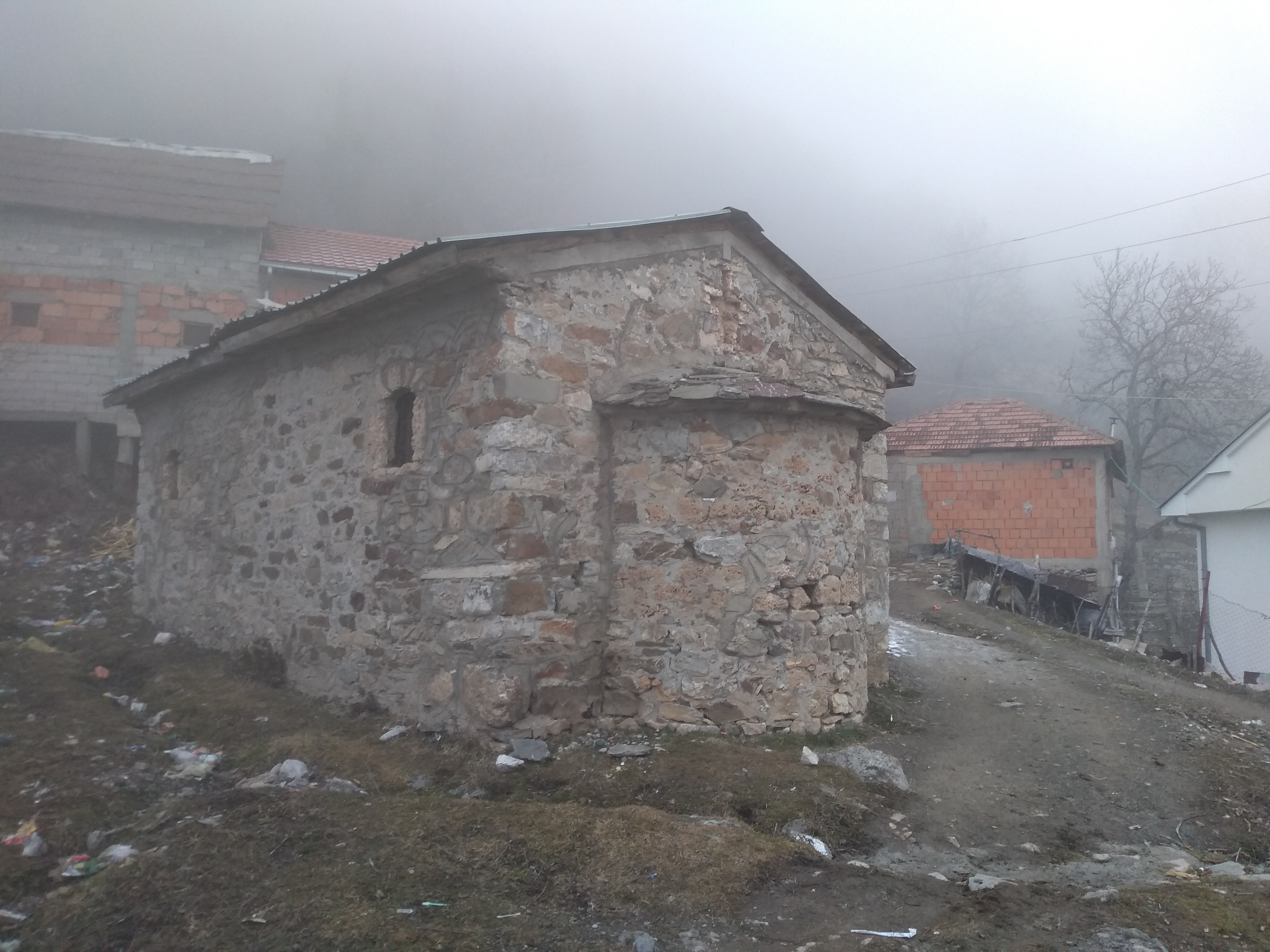 The church of St. Nicholas in the village of Gorno Kosovrasti, near Debar, Macedonia